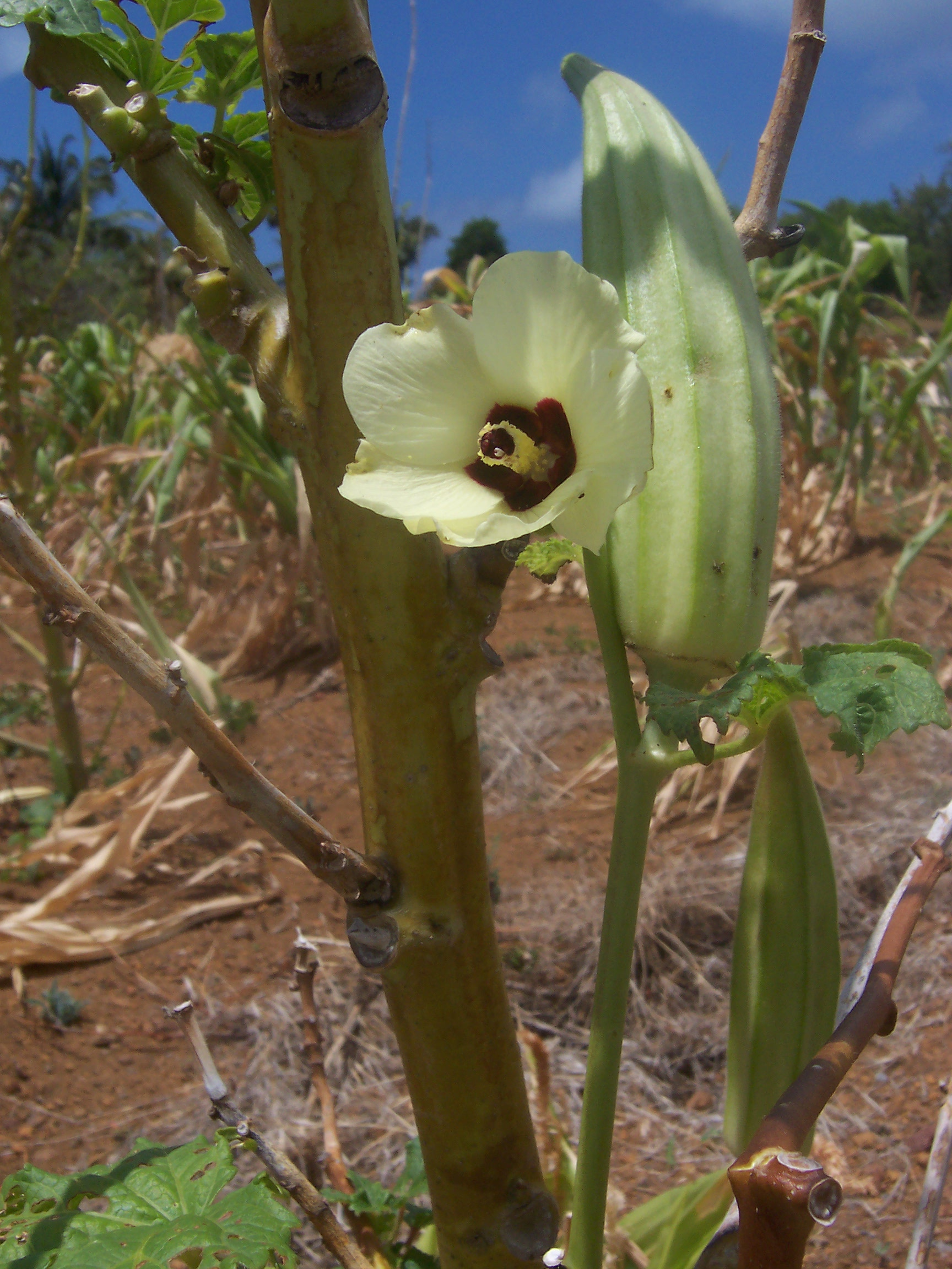 Abelmoschus esculentus : flower and fruit (cultivated on Rodrigues island)